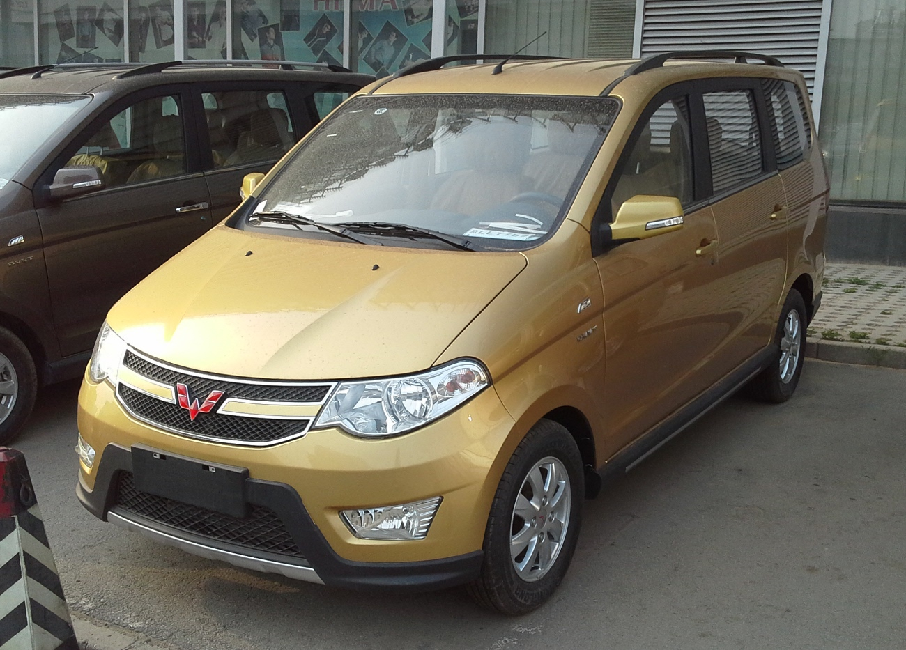 Wuling Hongguang S photographed in Beijing, China.